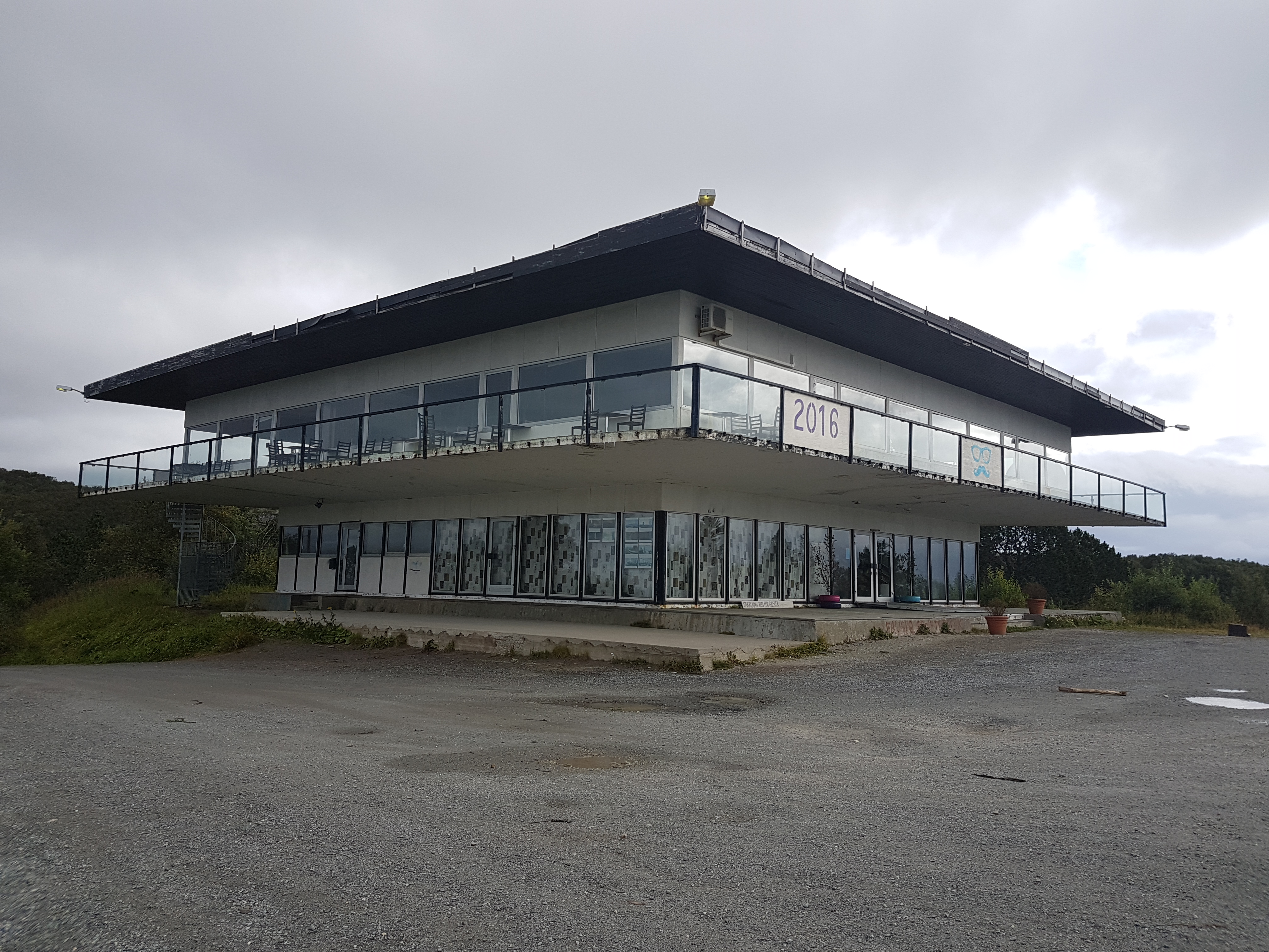 The Turisthytta in Bodø in late summer 2016